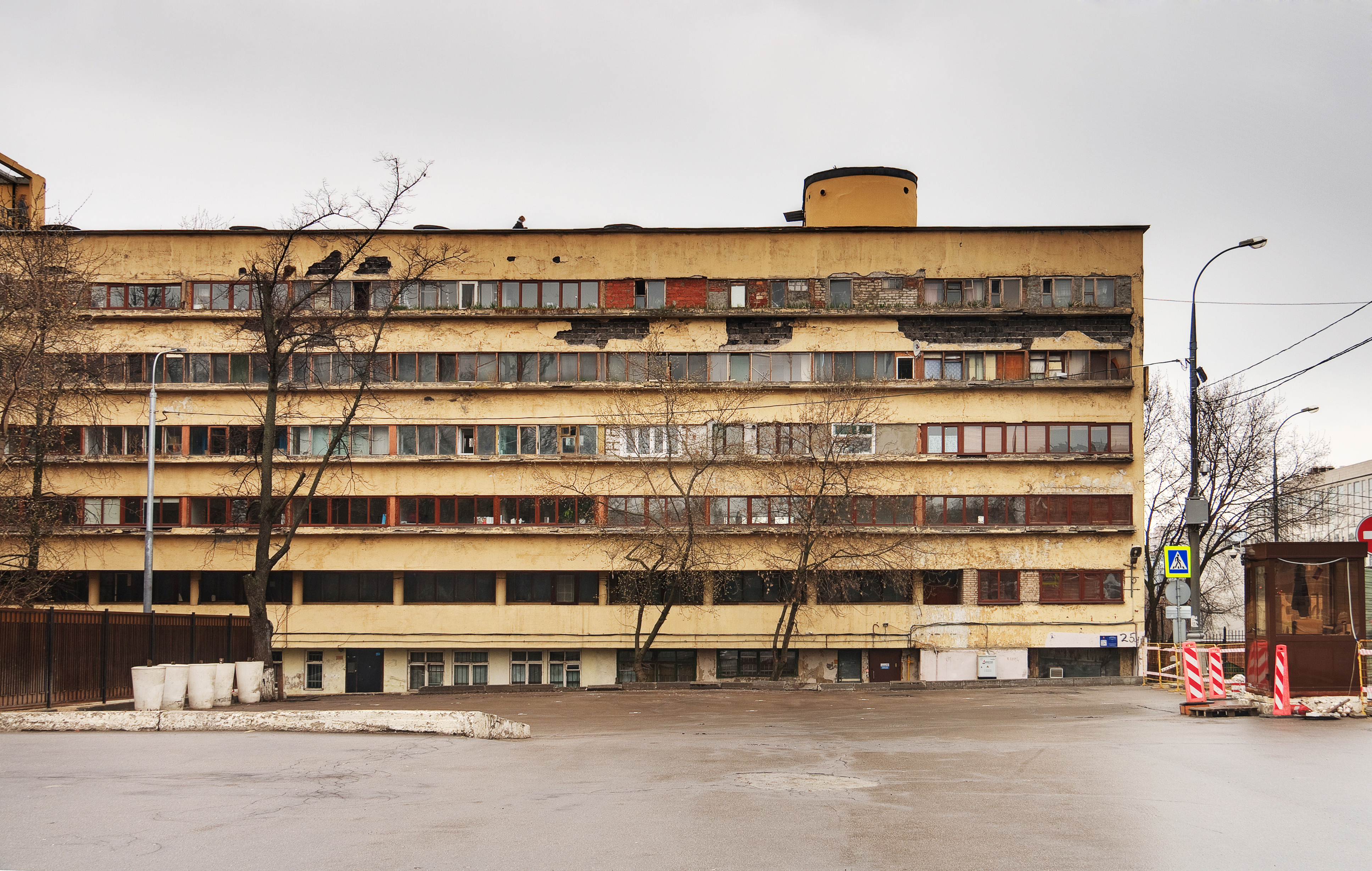 Narkomfin Building, Novinsky Boulevard 25, Moscow